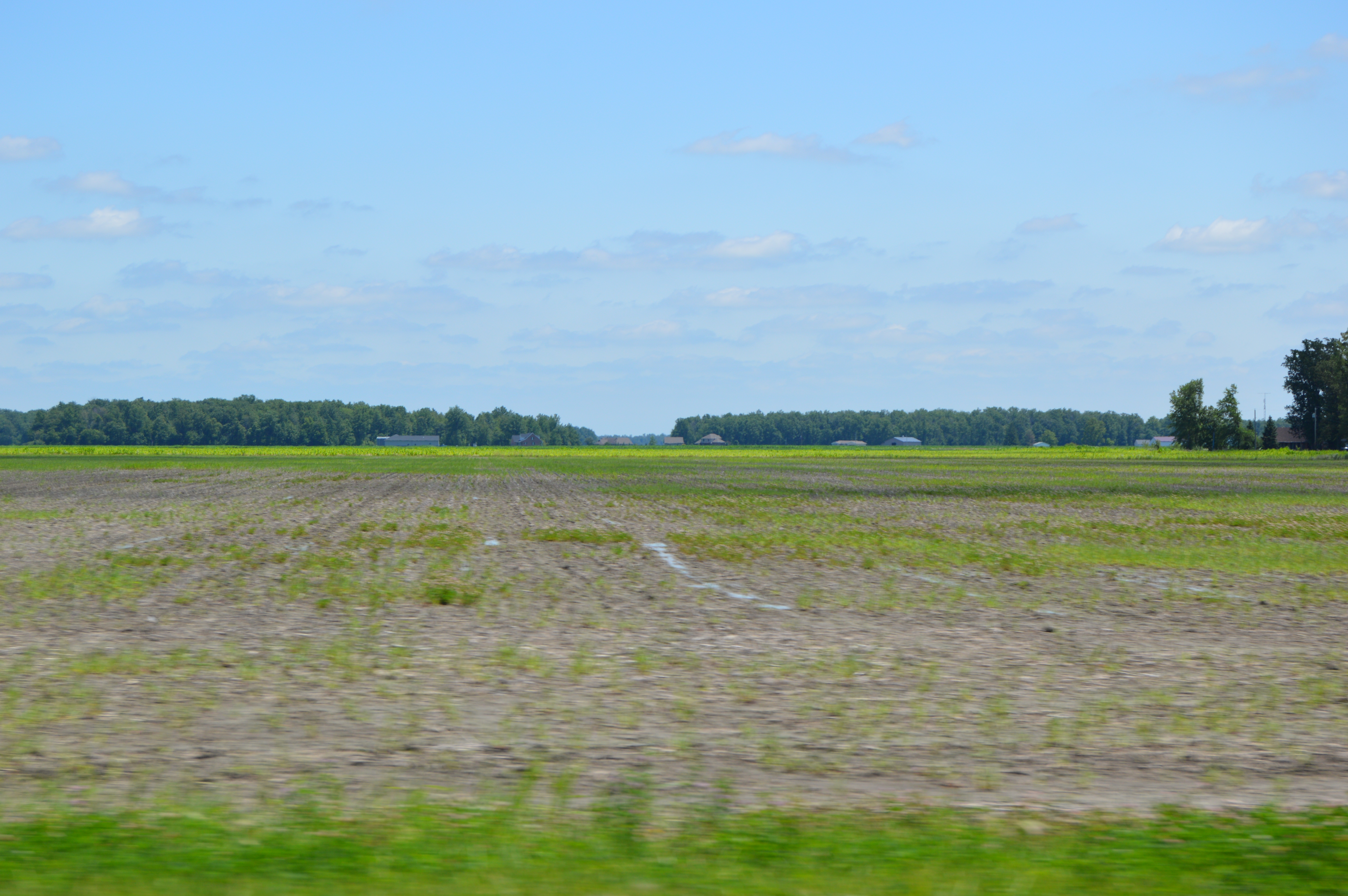 A soybean field on the eastern side of State Route 115 just north of Kalida in northern Union Township, Putnam County, Ohio, United States. The field has only a few plants; in the weeks before this photo, persistent heavy rains had flooded the region, ravaging the fields of this easily-drowned crop.